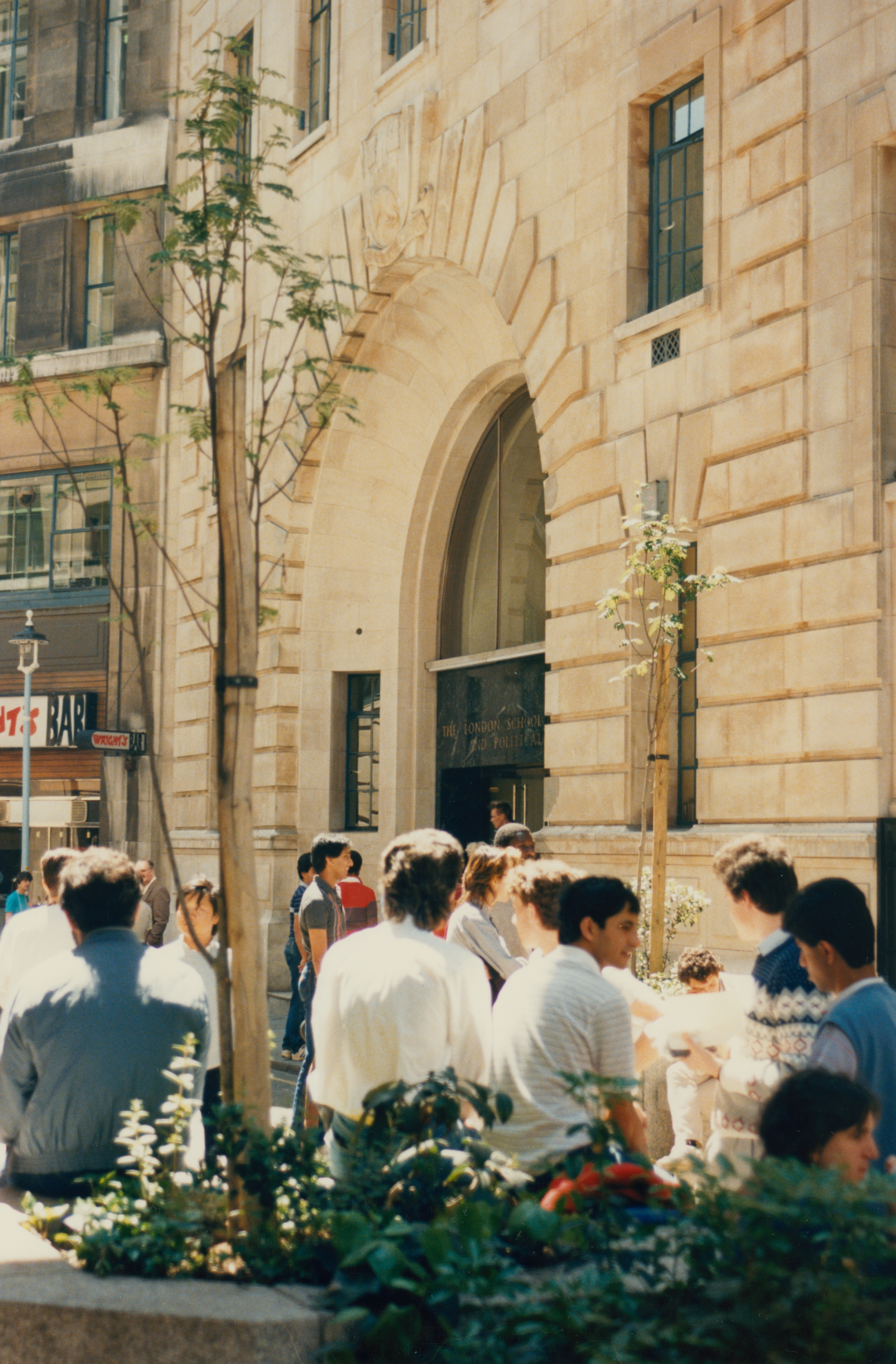 Houghton Street IMAGELIBRARY/521 Persistent URL